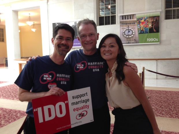 Supporting Same Sex Marriage